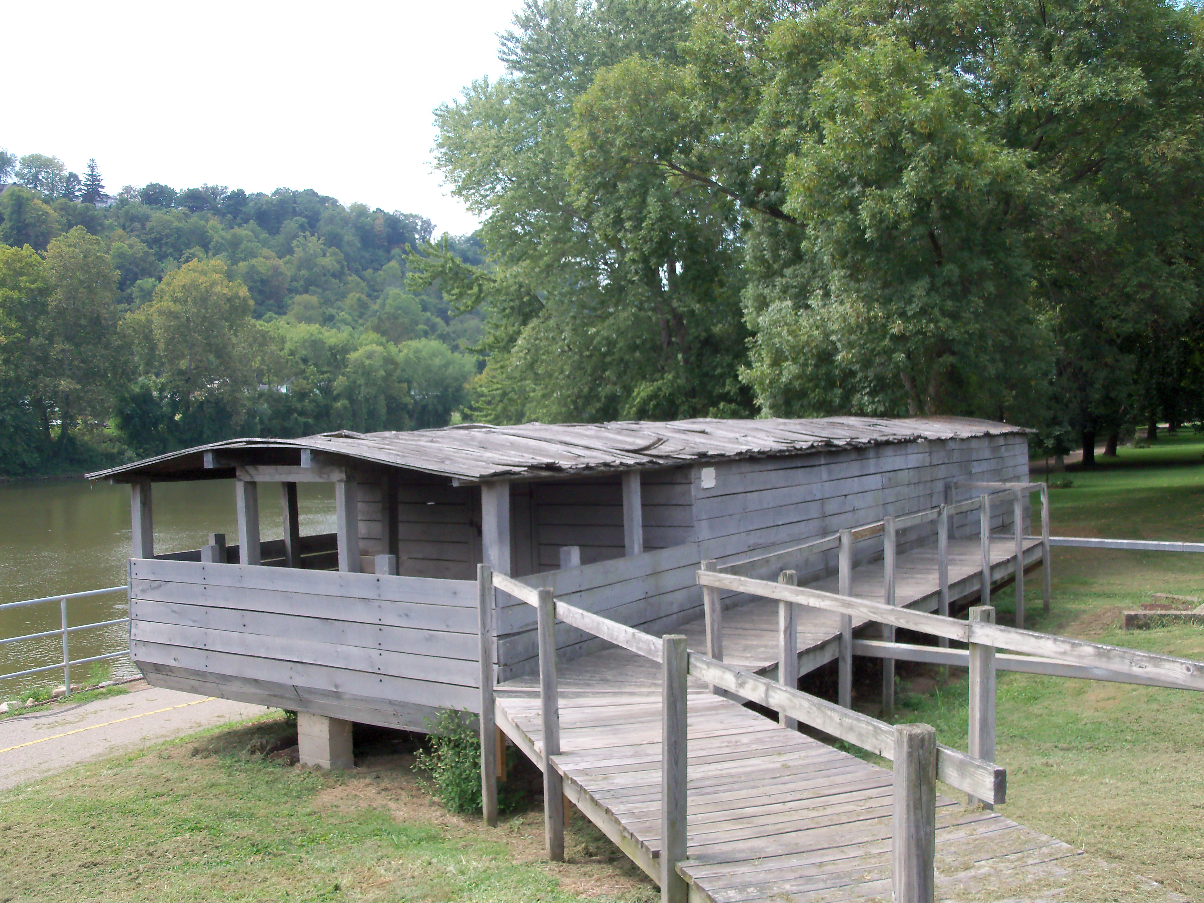 Replica of a Flatboat at the Ohio River Museum in Marietta, Ohio next to the Muskingum River. It was built in 1975 and re-built in 1996, and is based on the design of boats used to bring the American pioneers to the Northwest Territory of the Ohio Company of Associates to Marietta in 1788.